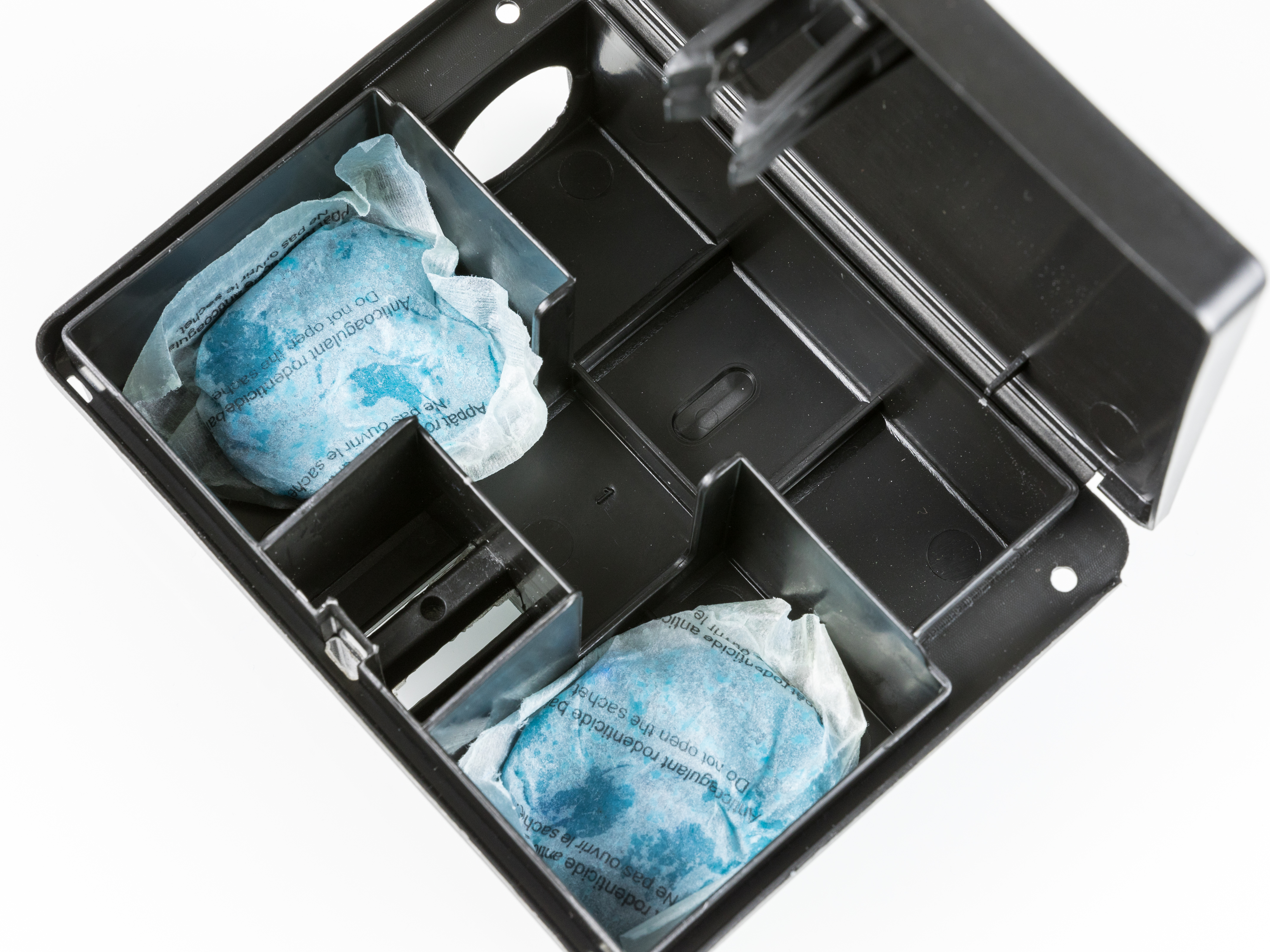 Baitbox for mice with Brodifacoum as poison